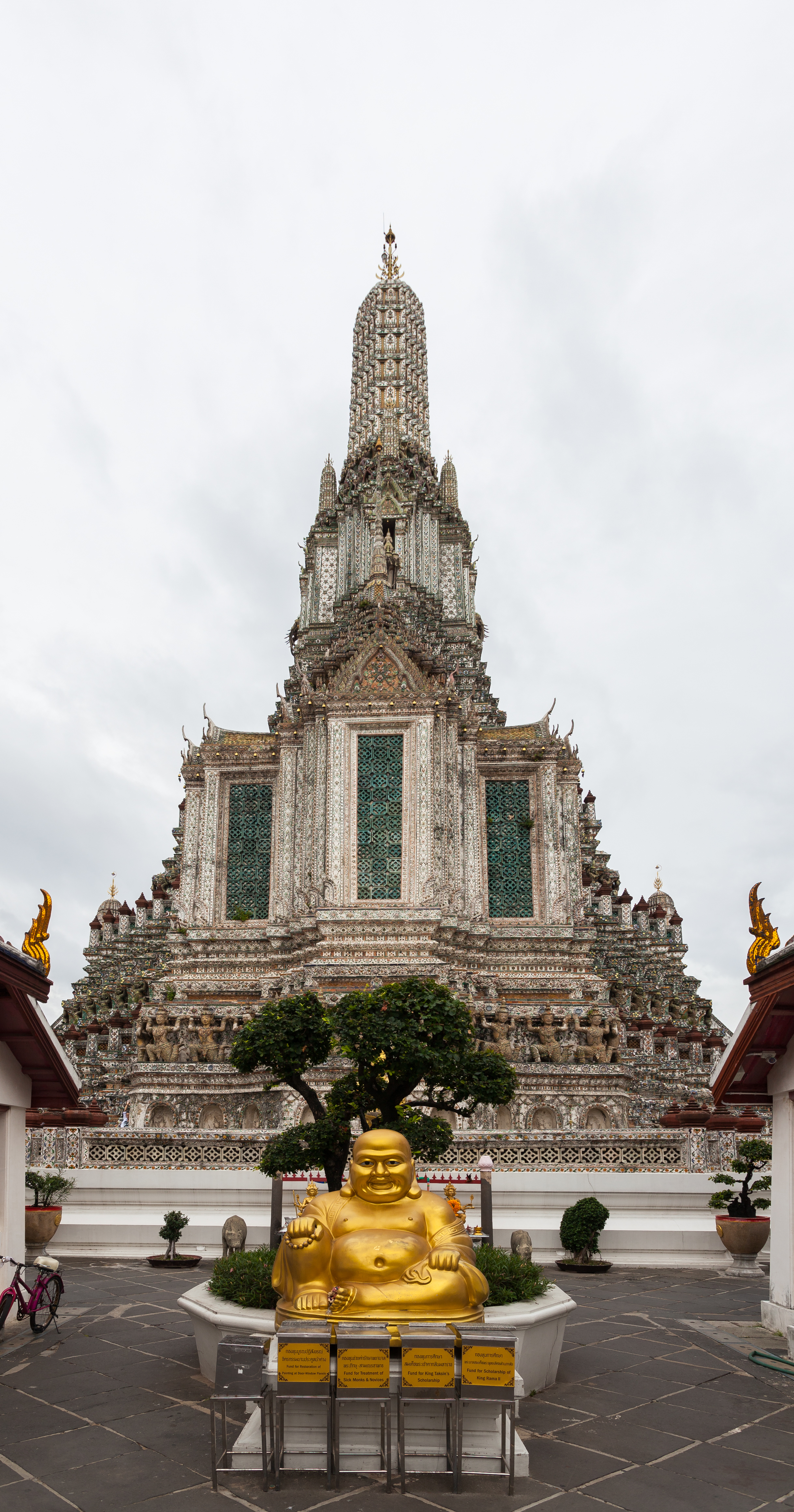 Wat Arun Temple, Bangkok, Thailand